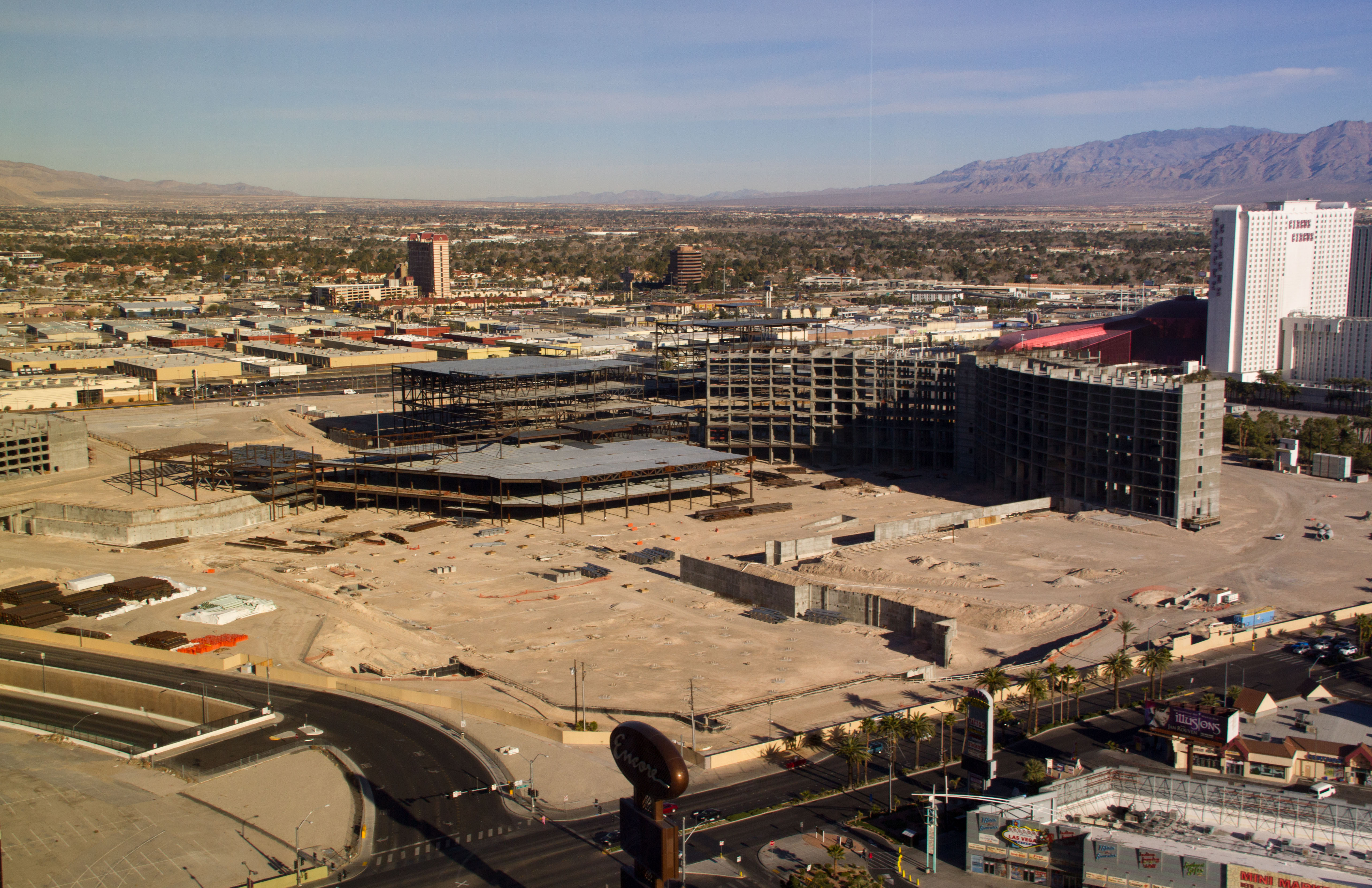 The incomplete, mothballed Echelon Place project on the Las Vegas Strip, USA.